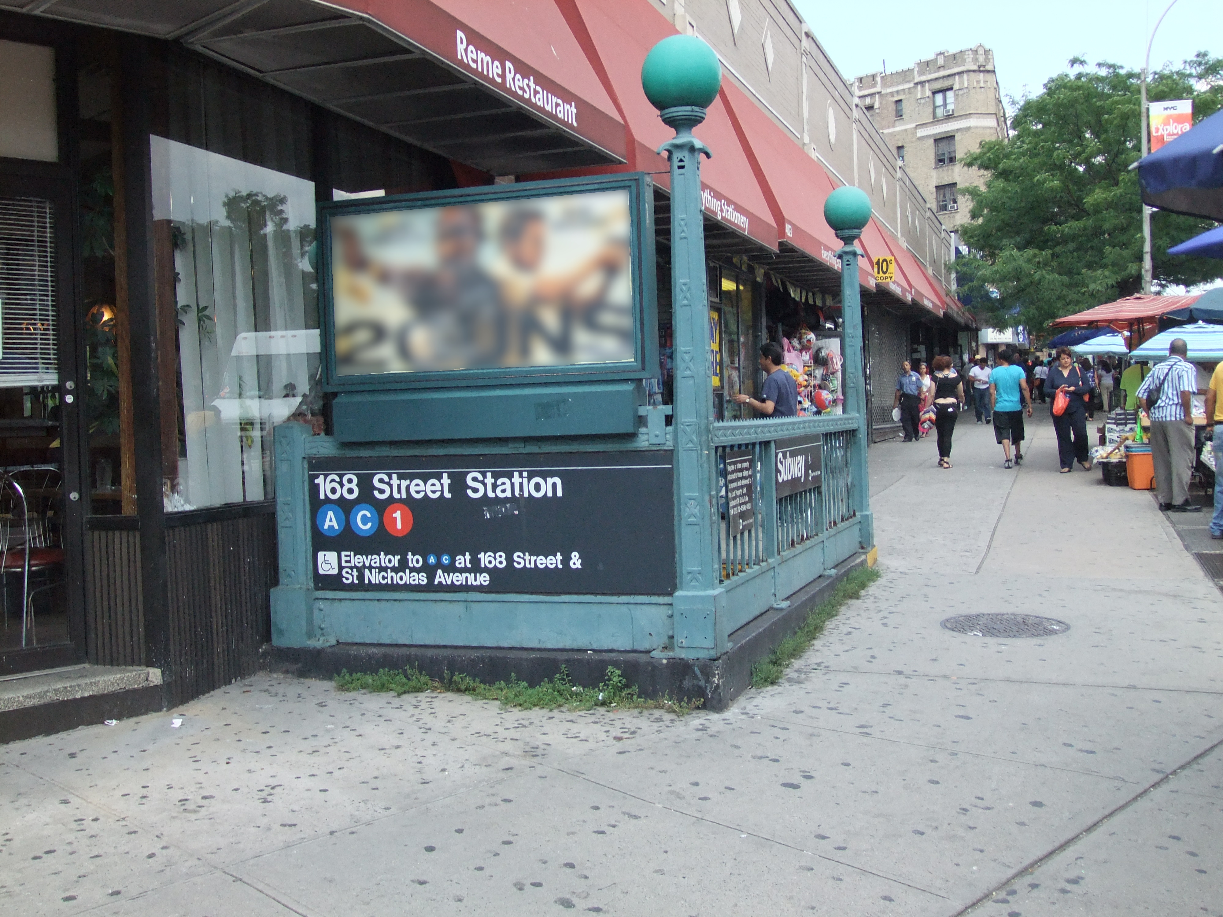 Stair at 169th Street and Broadway to the 168th Street station.